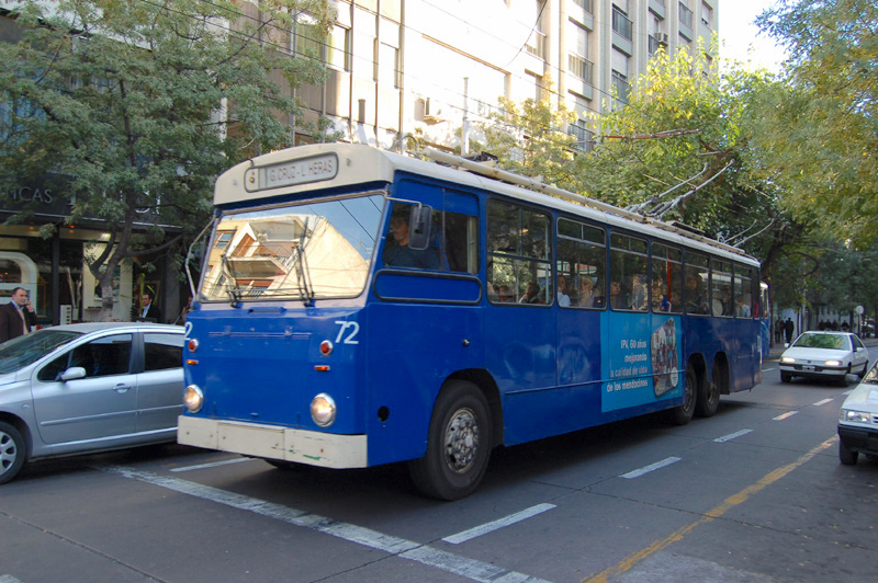 Mendoza trolleybus 72, ex-Solingen 51, in service on the Godoy Cruz – Las Heras line. The last trolleybuses of this type were retired in May 2010.